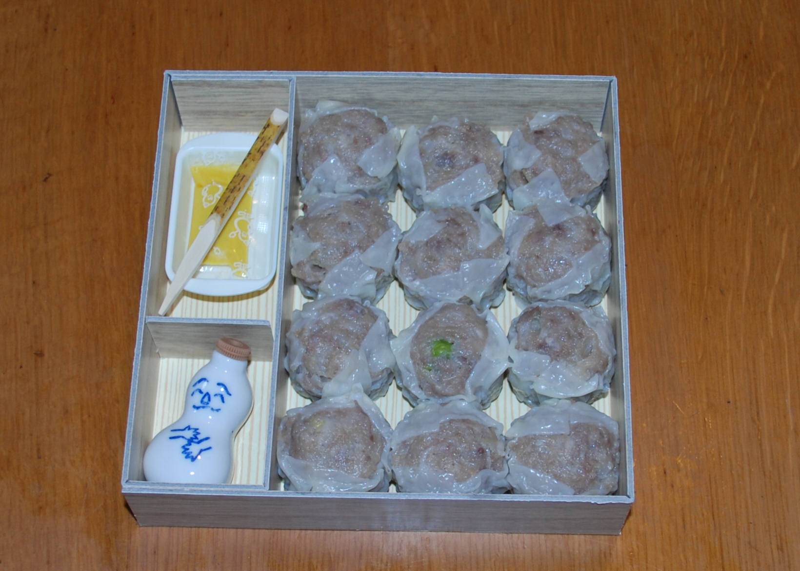 Famous Ekiben shaomai prodeced by Yokohama kiyoken